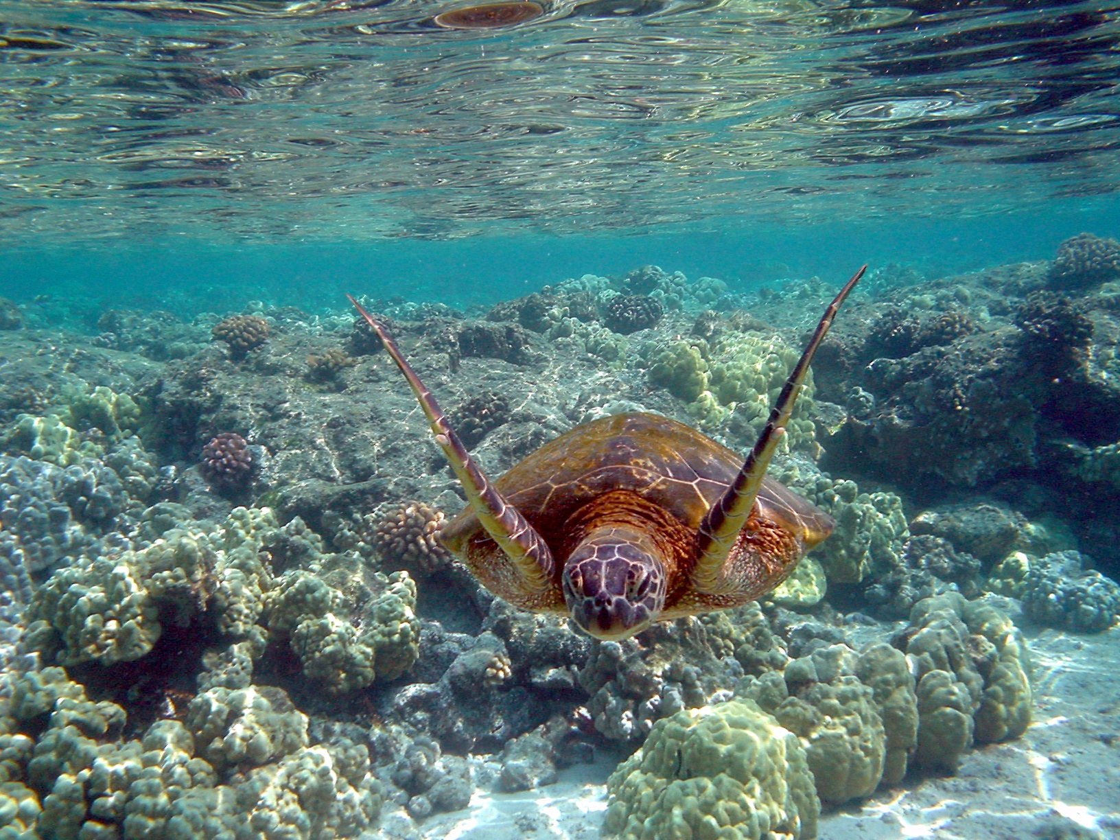 Green Turtle at Big Island of Hawaii